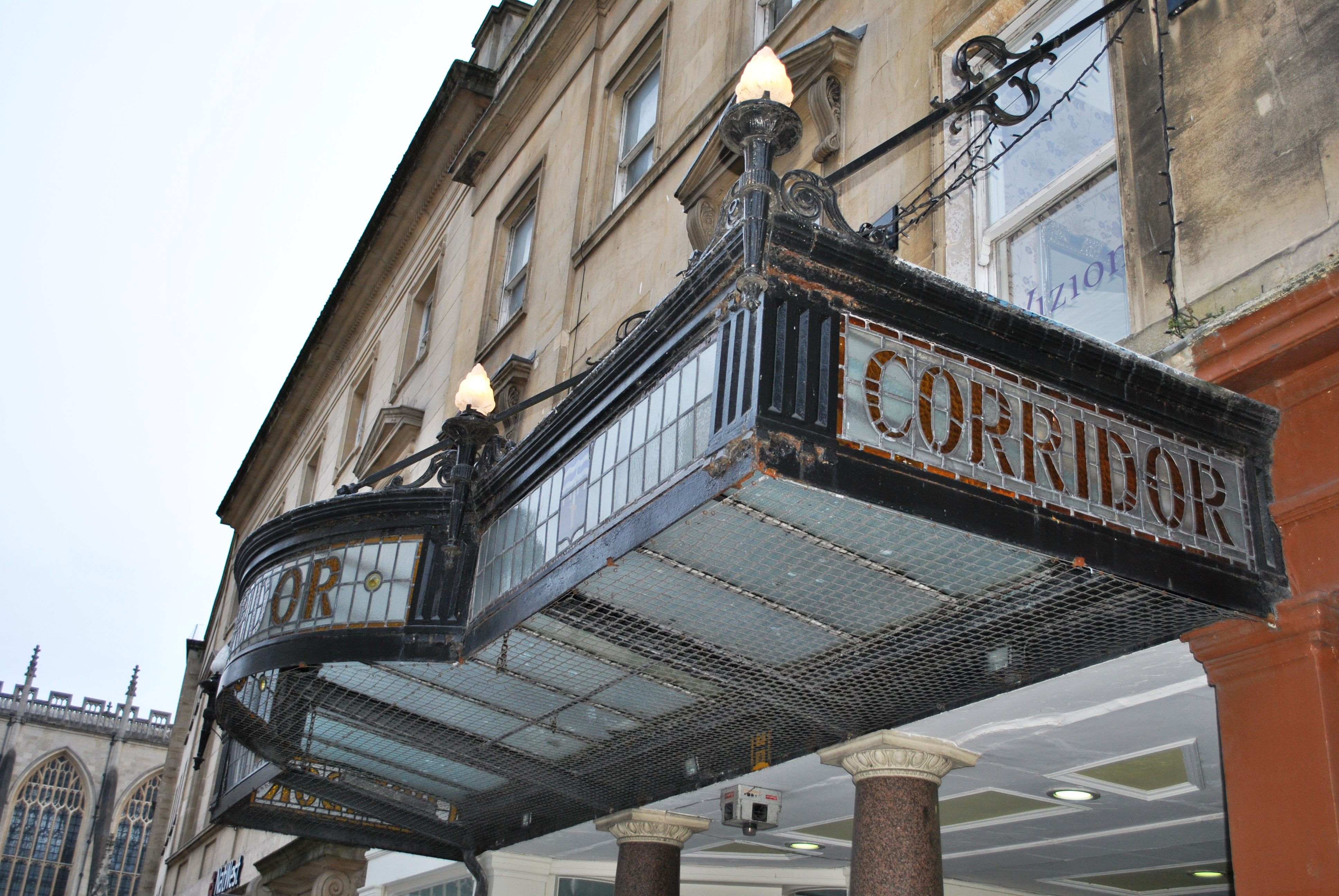 The Corridor